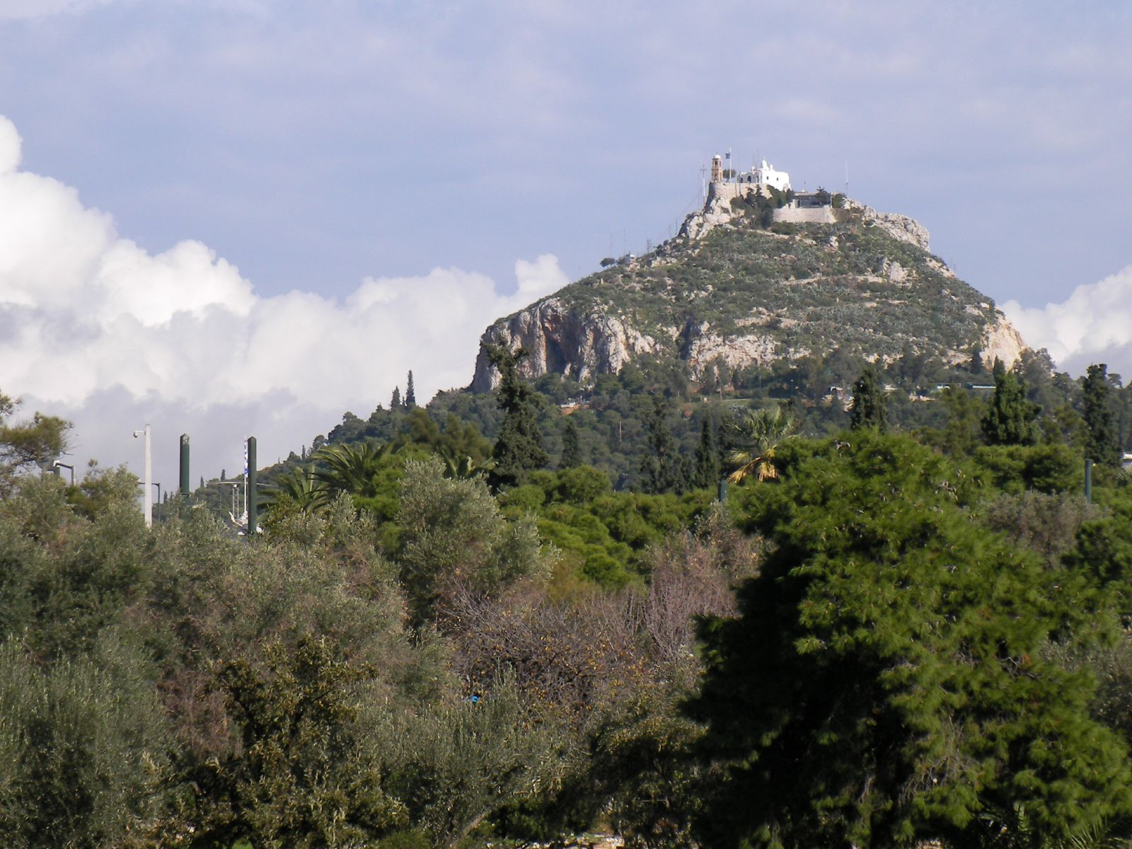 Mount Lycabettus, Athens, Greece.